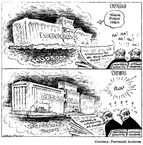 In 1926, the personifications of the Montreal Gazette and the Ottawa Journal laughed at the idea of Churchill, Manitoba becoming a grain port, because they imagined that it was an iceberg. In 1931, the same personifications are stunned to see that their imagined iceberg is warehouses, freighters, and loading docks.